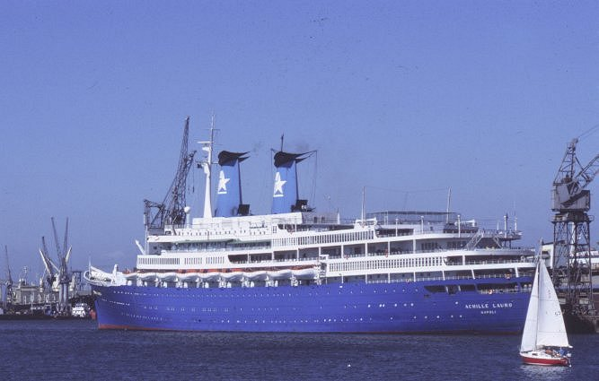 Achille Lauro (her funnel logo has changed to that of Star Lauro (an L with a star next to it)